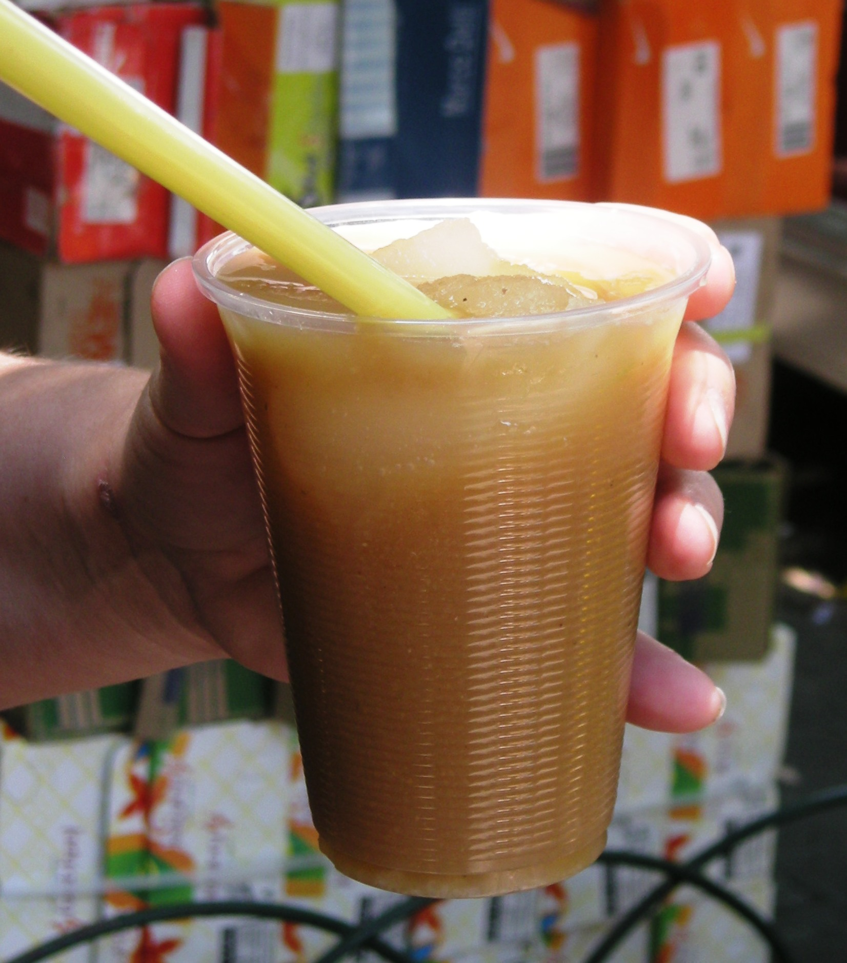 A glass of tejuino, a drink made from fermented corn popular in Jalisco, Mexico